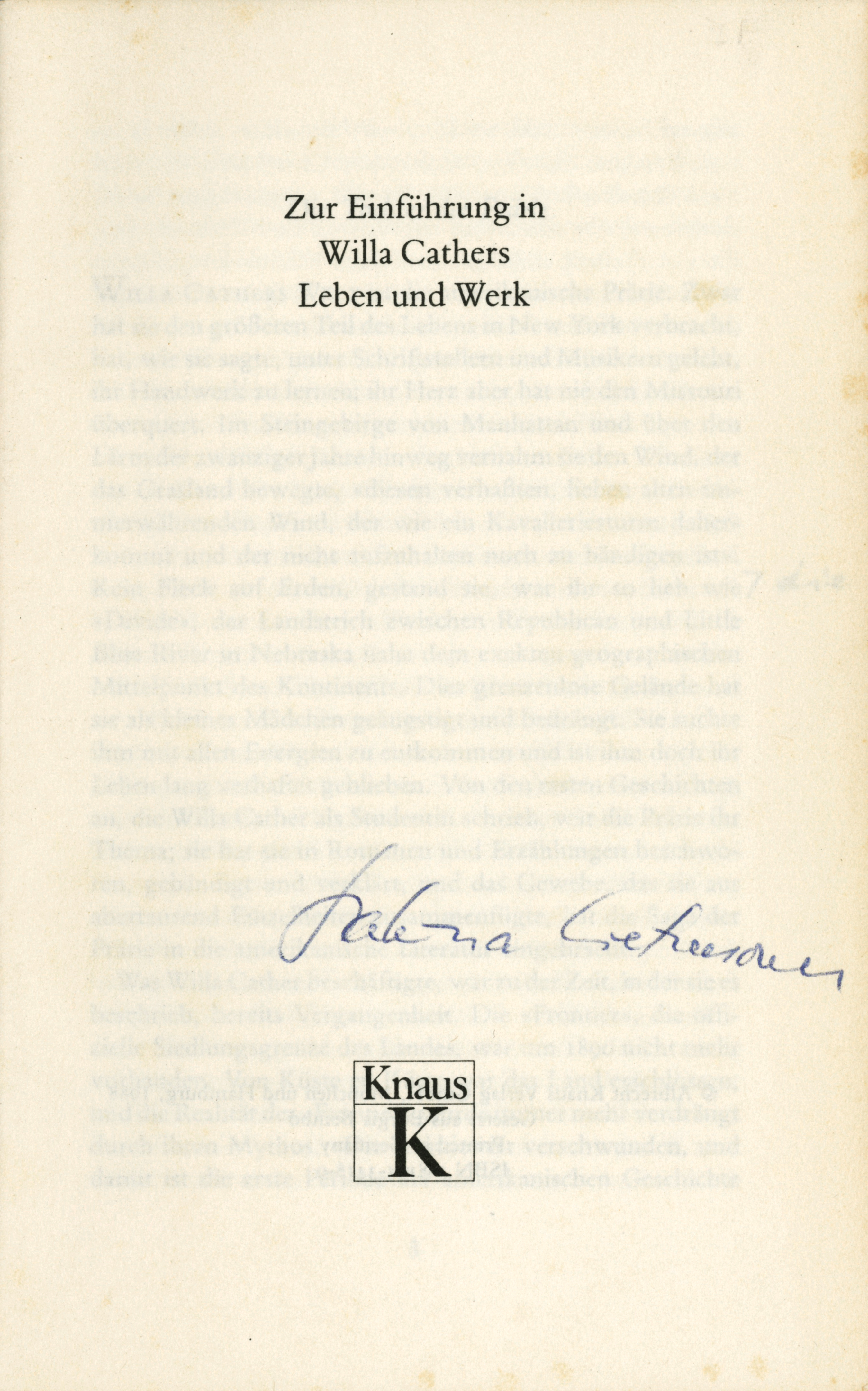 The Œuvre of Willa Cather – An Introduction by Sabina Lietzmann. Published by Knaus Verlag, 1976. Original copy signed by the author.